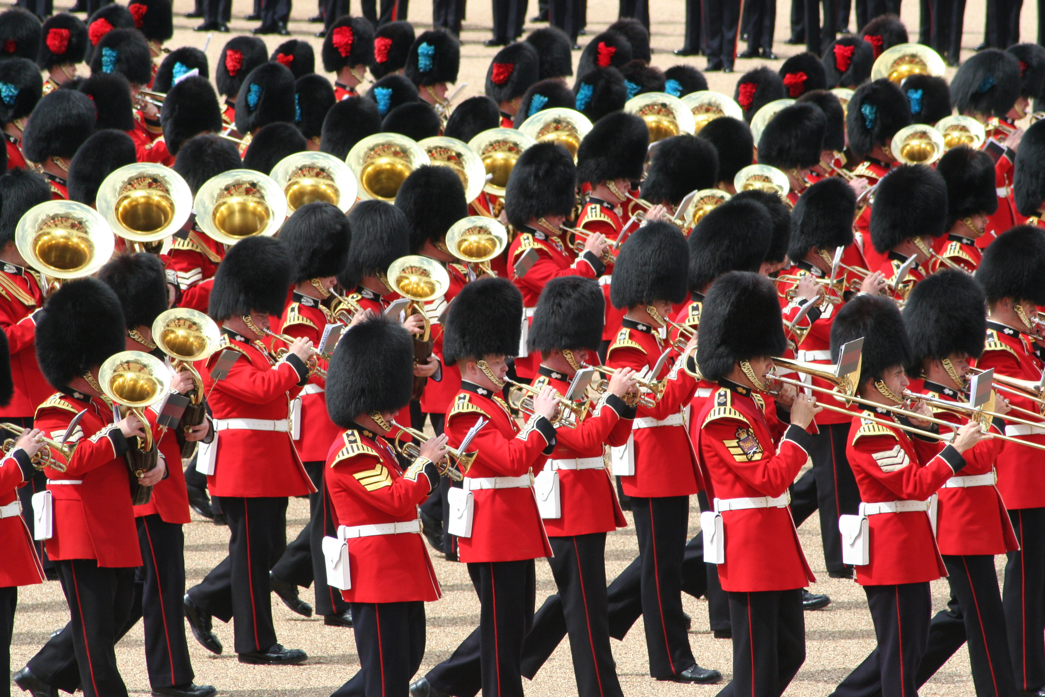 Military band, Queen's Official Birthday parade,Horse Guards parade, London, 2007Trooping the Colour, 16th June 2007